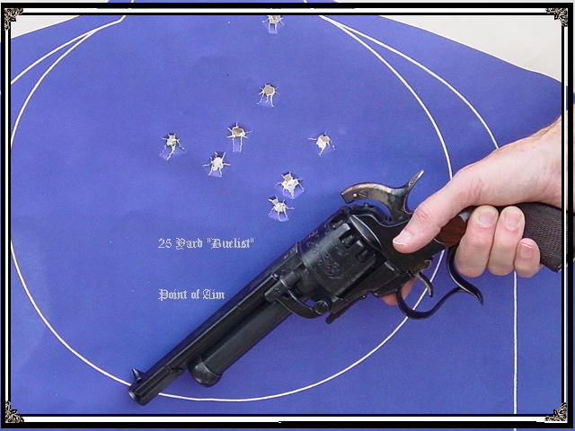 A Pietta replica of the percussion LeMat. It is an accurate and well made revolver. The shot barrel is difficult to shoot with modern percussion caps due to the oblique angle of the shot barrel hammer extension and its short throw.